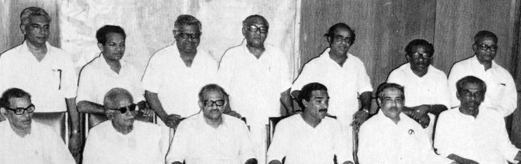 Kerala Ministers from 1978 PK Vasudevan Nair Ministry